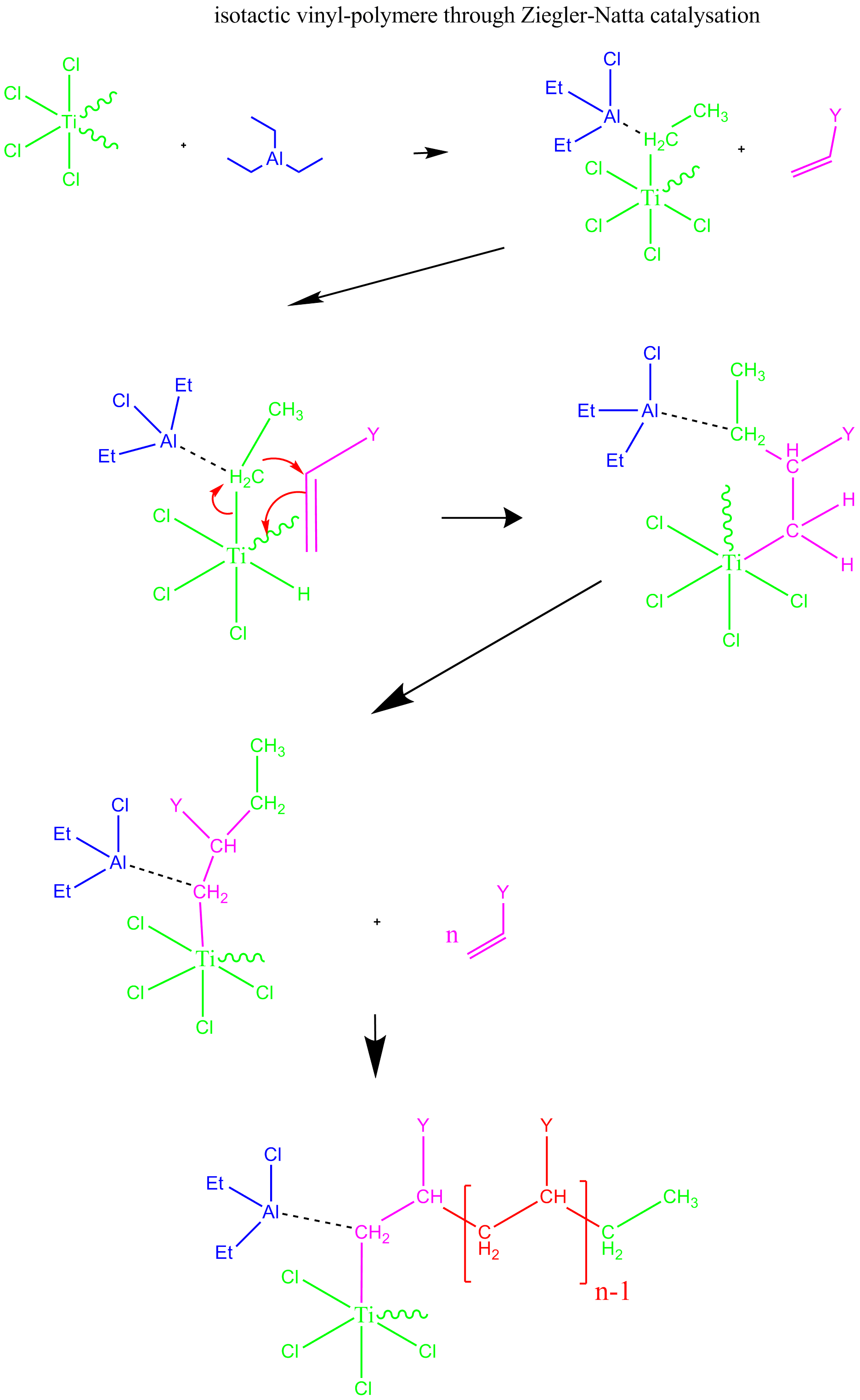 Process of Ziegler-Natta catalysation of isotactic polymerisation of vinyl polymer; Wavy bonds are used to denote a free (e--less orbital) Dashed bonds are used to denote H-bondings